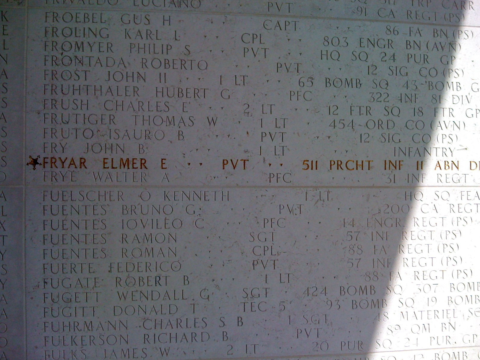 Pvt. Elmer E. Fryar's name on the eastern hemicycle of the Manila American War Memorial and Cemetery, Taguig, Metro Manila, Philippines. Names of Medal of Honor recipients are embossed in gold.